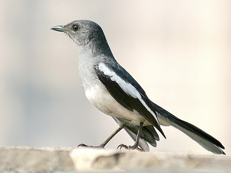 Oriental Magpie Robin (Copsychus saularis) in Kolkata, West Bengal, India.